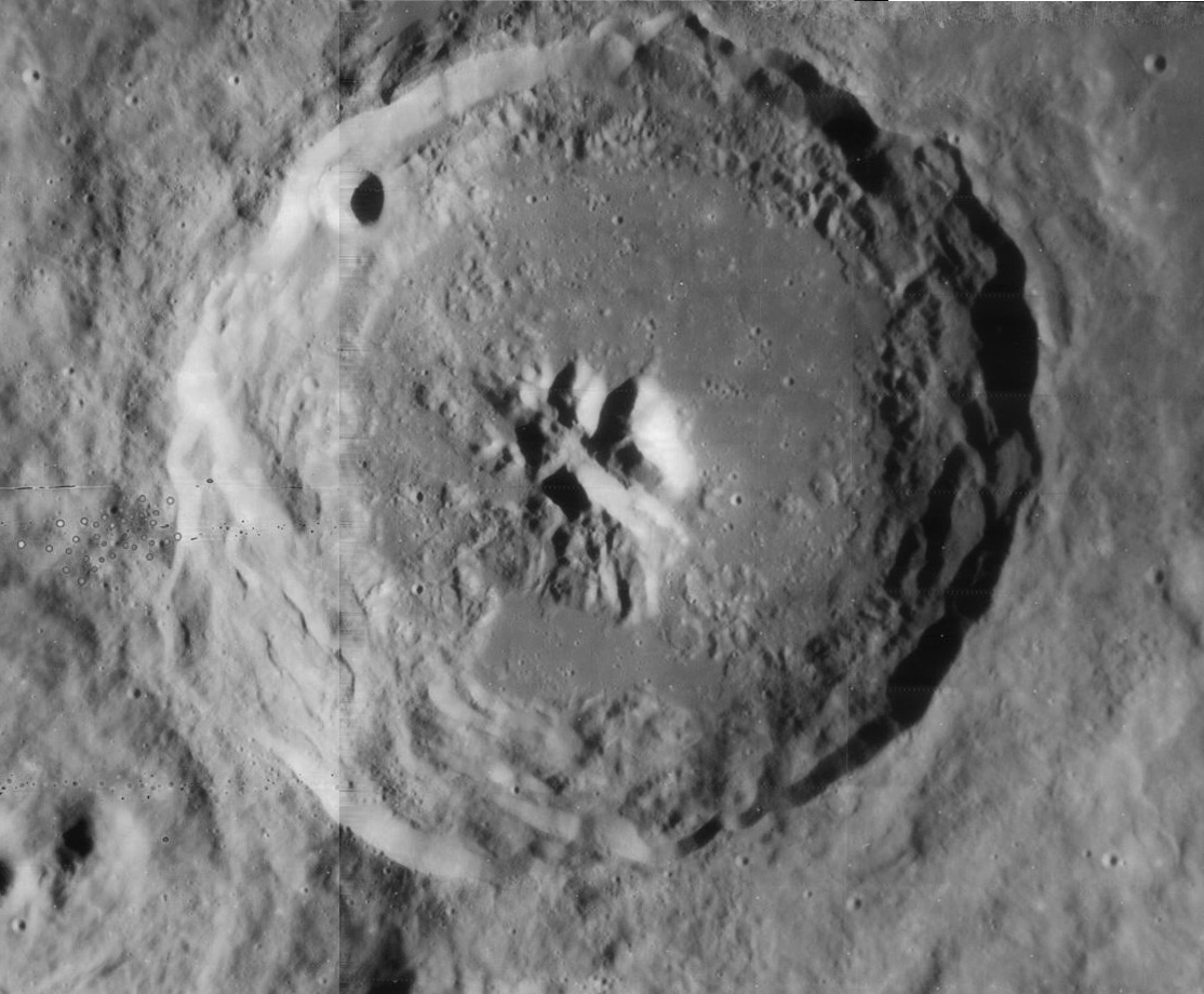 Theophilus, on the moon.